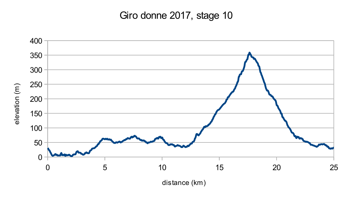 Profile of stage 10 of Giro donne 2017.